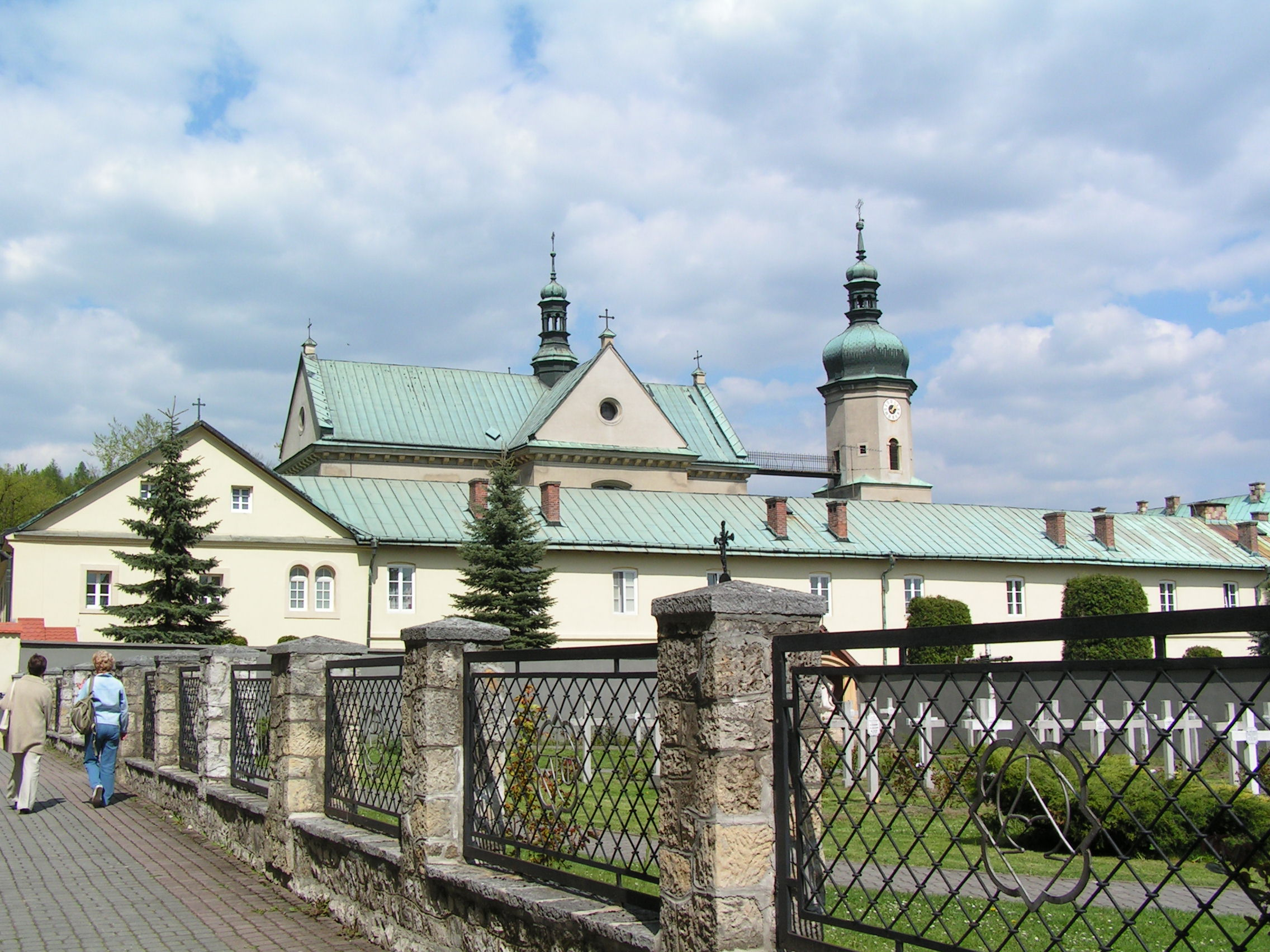 Monastery in Czerna, Poland